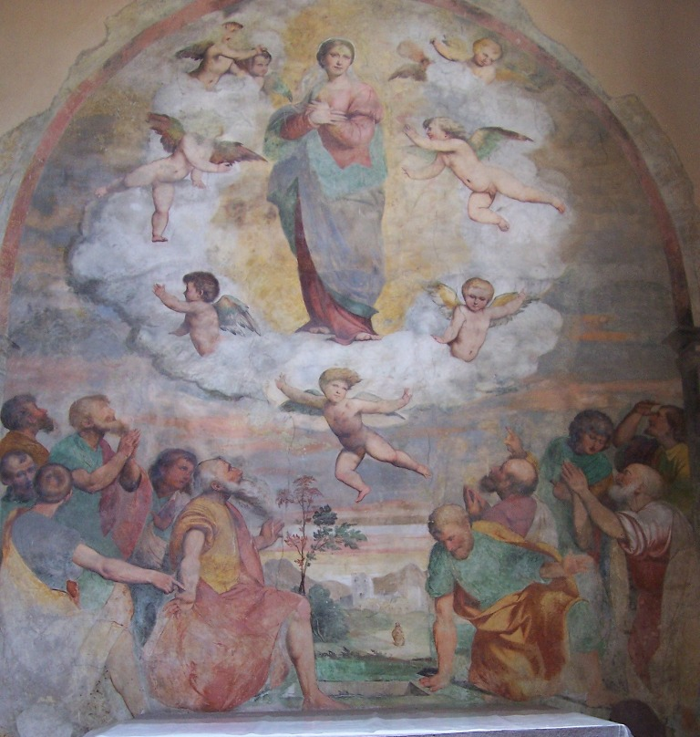 Assumption of Mary